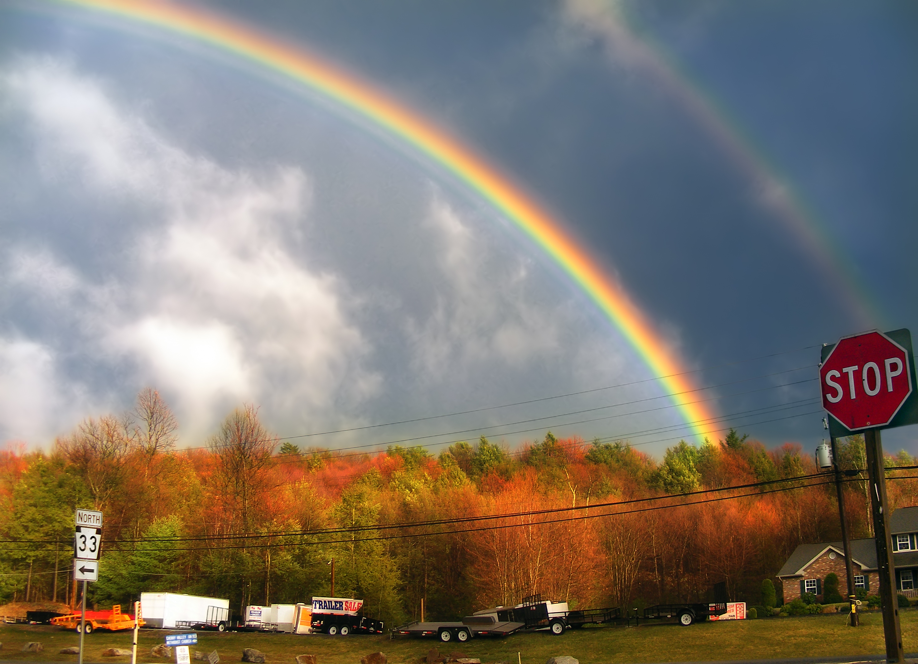 Rainbows and fractocumulus clouds in the wake of a thunderstorm.